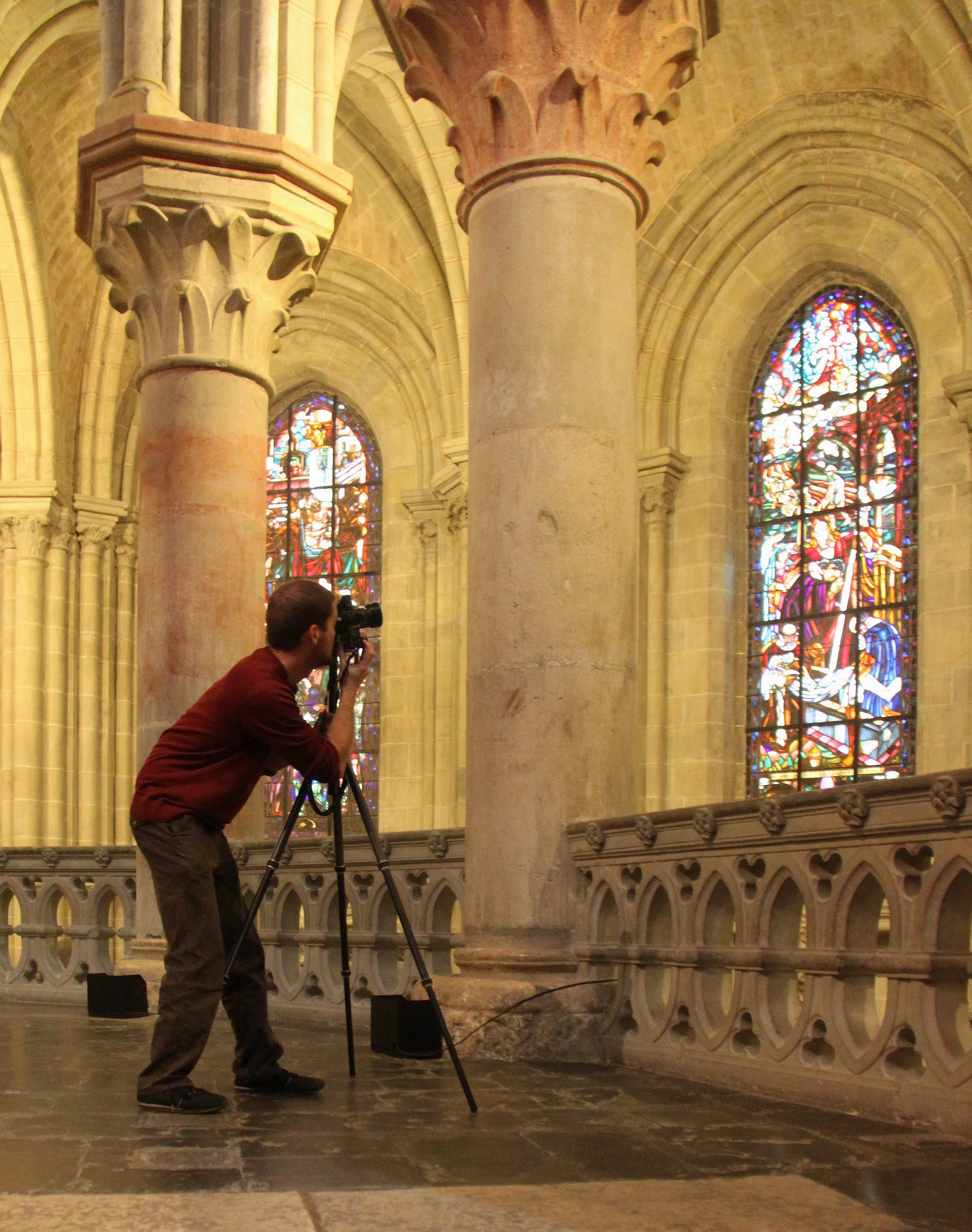 Ludo29 photographiant les vitraux de la cathédrale de Lausanne